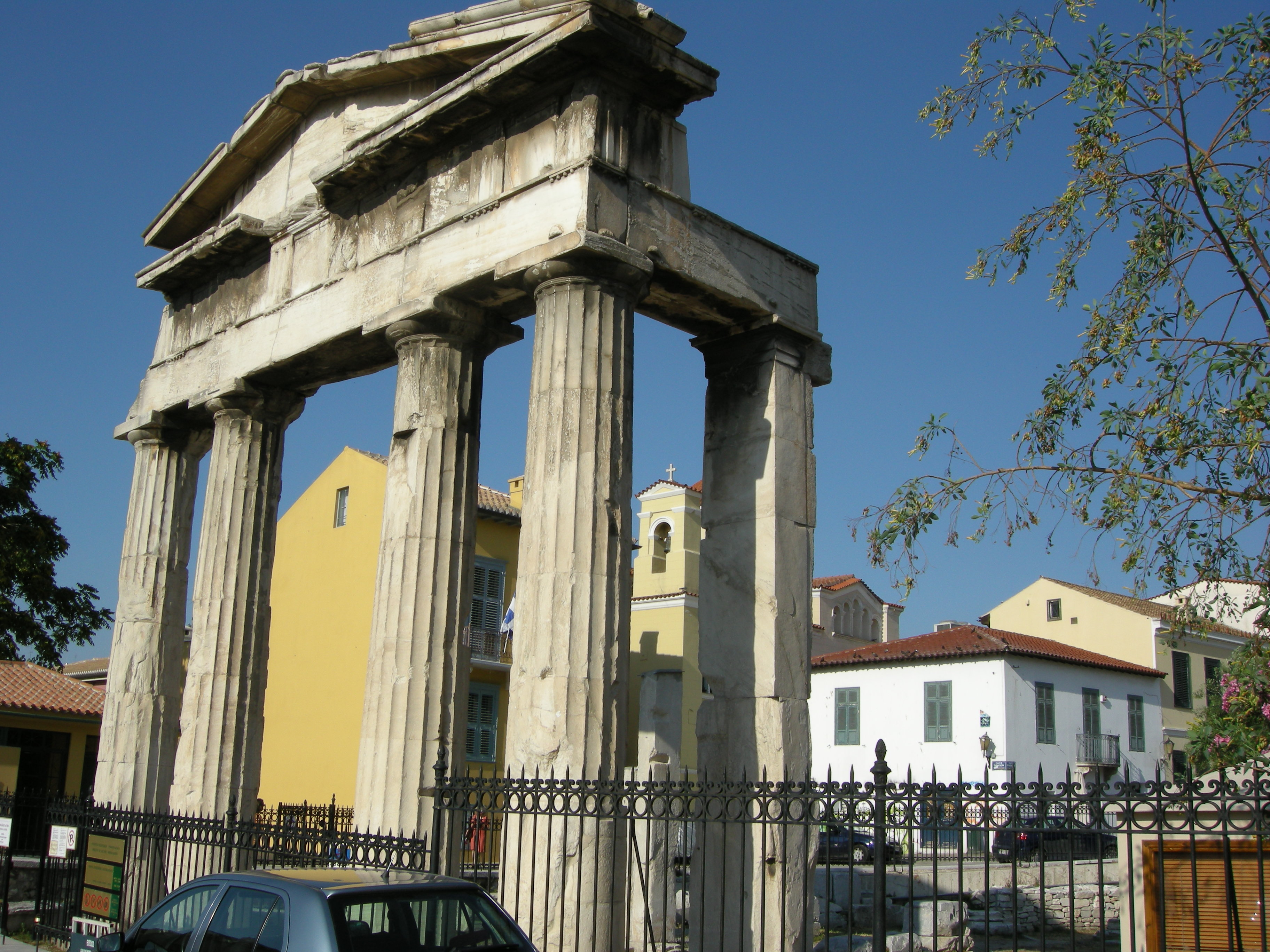 This Gate of Athena Archegetis is part of the Roman Forum in Athens, built during the rein of Julius Caesar. This gate provided the Main Entrance and along with the Tower of the Winds is the most prominent remain on the site..